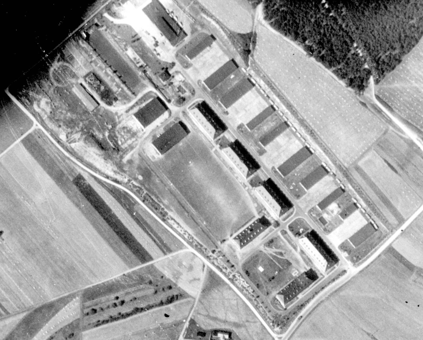 Barracks Barbarakaserne in City Meiningen, Germany in 1944.